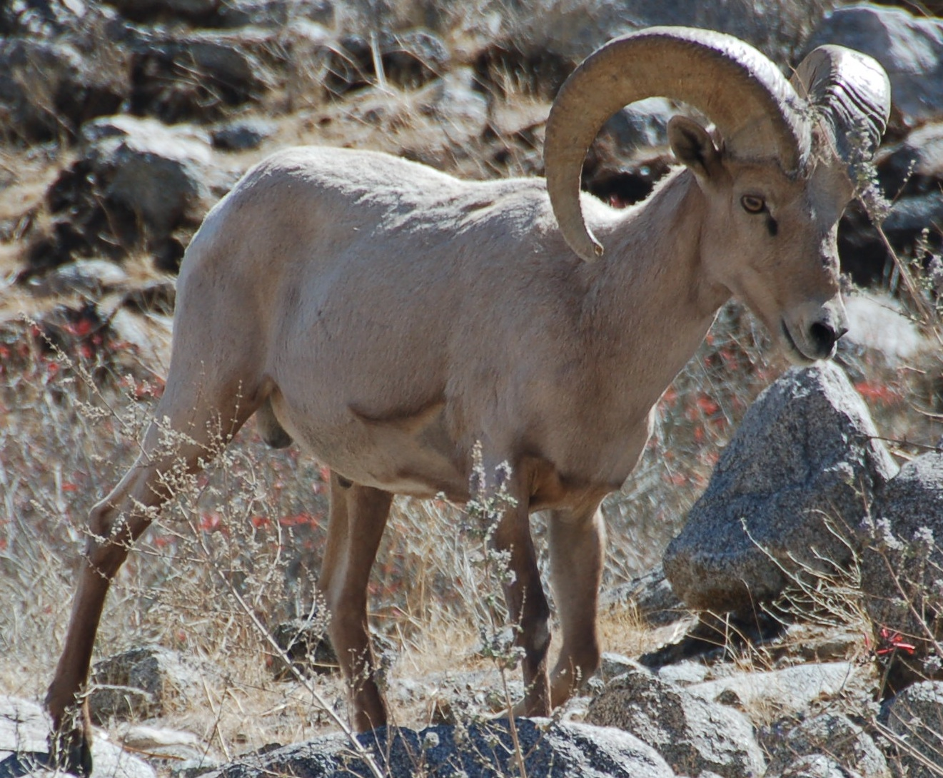 Desert bighorn sheep in the Hellhole Canyon in the Anza-Borrego Desert State Park. Cropped from original.